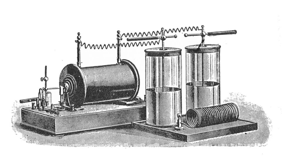 "D'Arsonval apparatus", invented by French physicist and doctor Jacque Arsene D'Arsonval around 1890 used in an obsolete Victorian-era medical field called electrotherapy. It was a high frequency resonant "oscillation transformer" similar to a Tesla coil without the secondary winding, which generated high voltage, high frequency electricity. It consisted of an induction coil (rear) that generated a high voltage of around 4 - 15 kV. This repeatedly charged the two Leyden jar capacitors, which repeatedly discharged with a spark through the spark gap. The capacitors together with the solenoid coil (front) formed a tuned circuit and the spark excited damped oscillations in the tuned circuit. The device produced an oscillating voltage of 20 - 30 kV with substantial current at frequencies of around 300 kHz - 5 MHz. Wires from both ends of the coil to electrodes applied the current to the patient's body. It was used for diathermy (deep heating of tissue) and several other therapies.